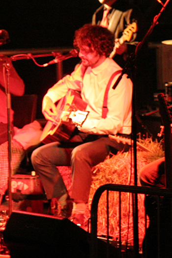 Chris Helme performing at the Galtres Parklands Festival, held at Duncombe Park, North Yorkshire, in August 2014